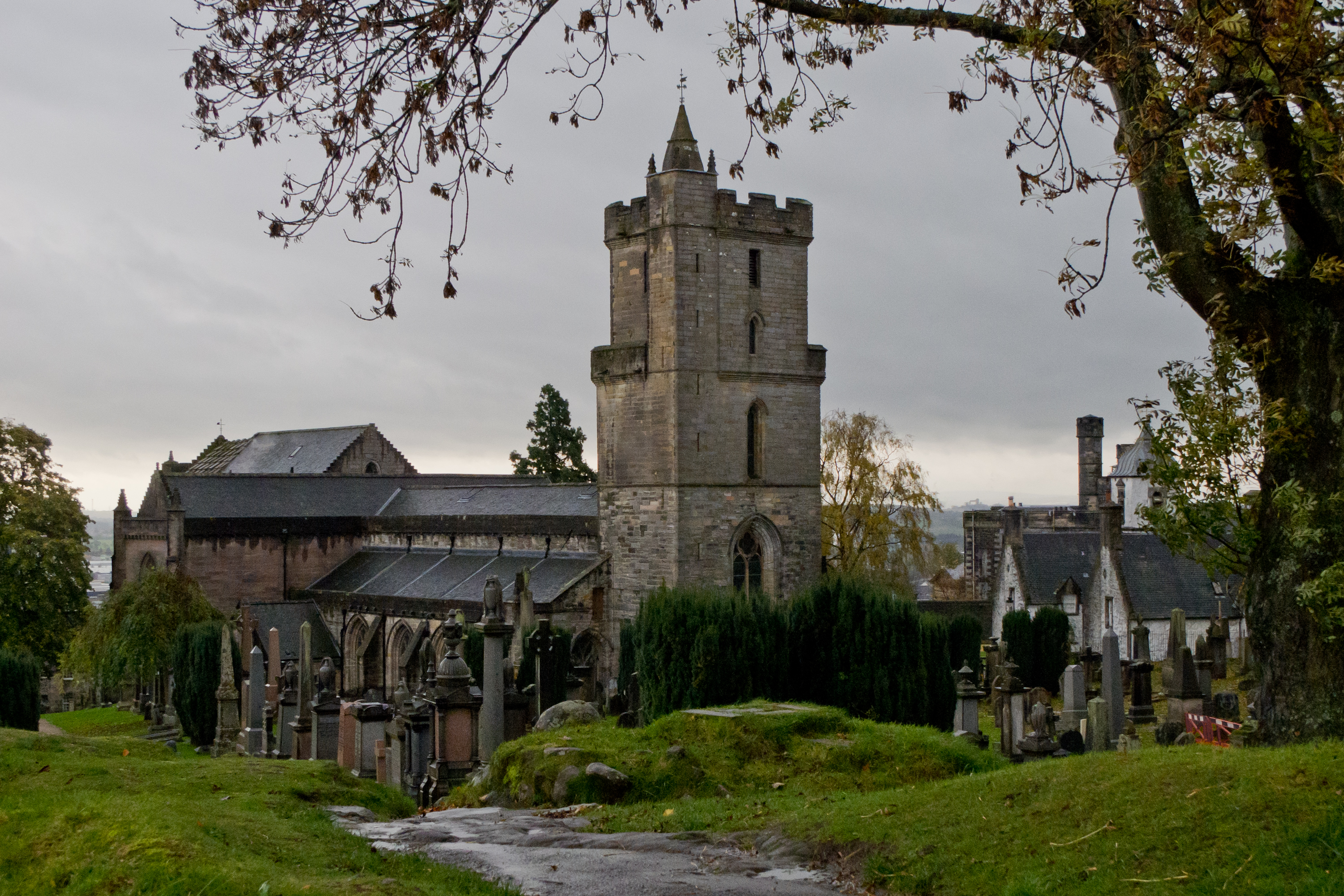 Church Of The Holy Rude, Stirling, Scotland, United Kingdom. Wikidata has entry Q17572128 with data related to this building.